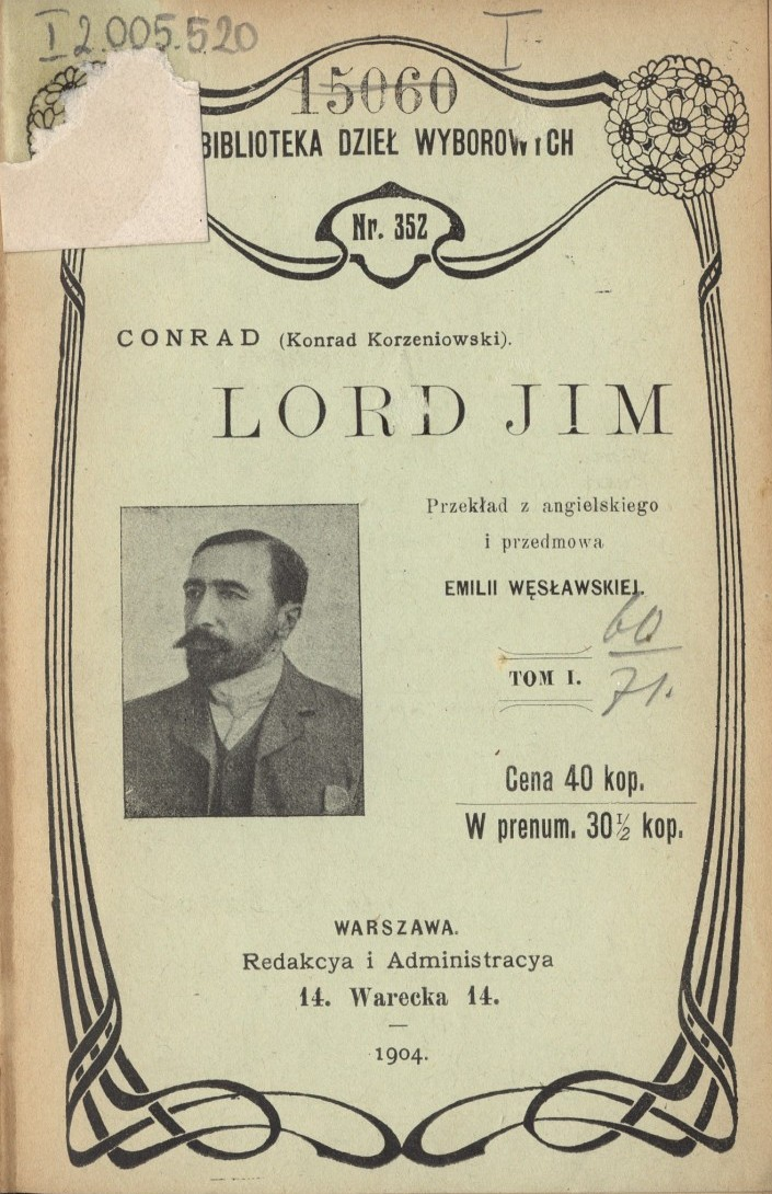 novel